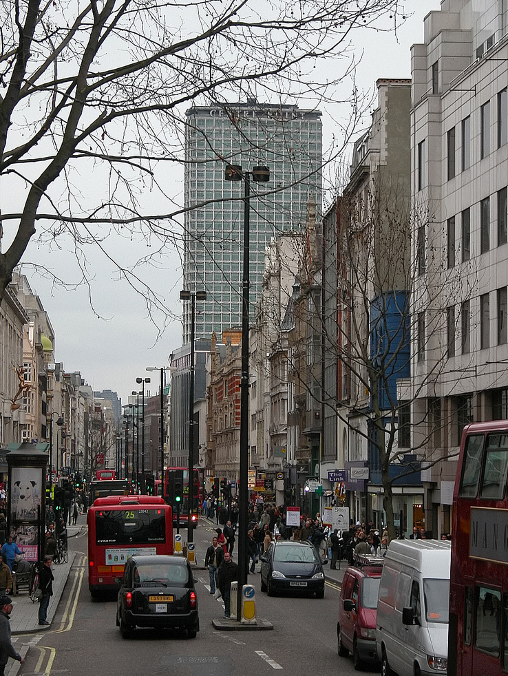 Oxford Street in London's West End, with Centrepoint in the background.